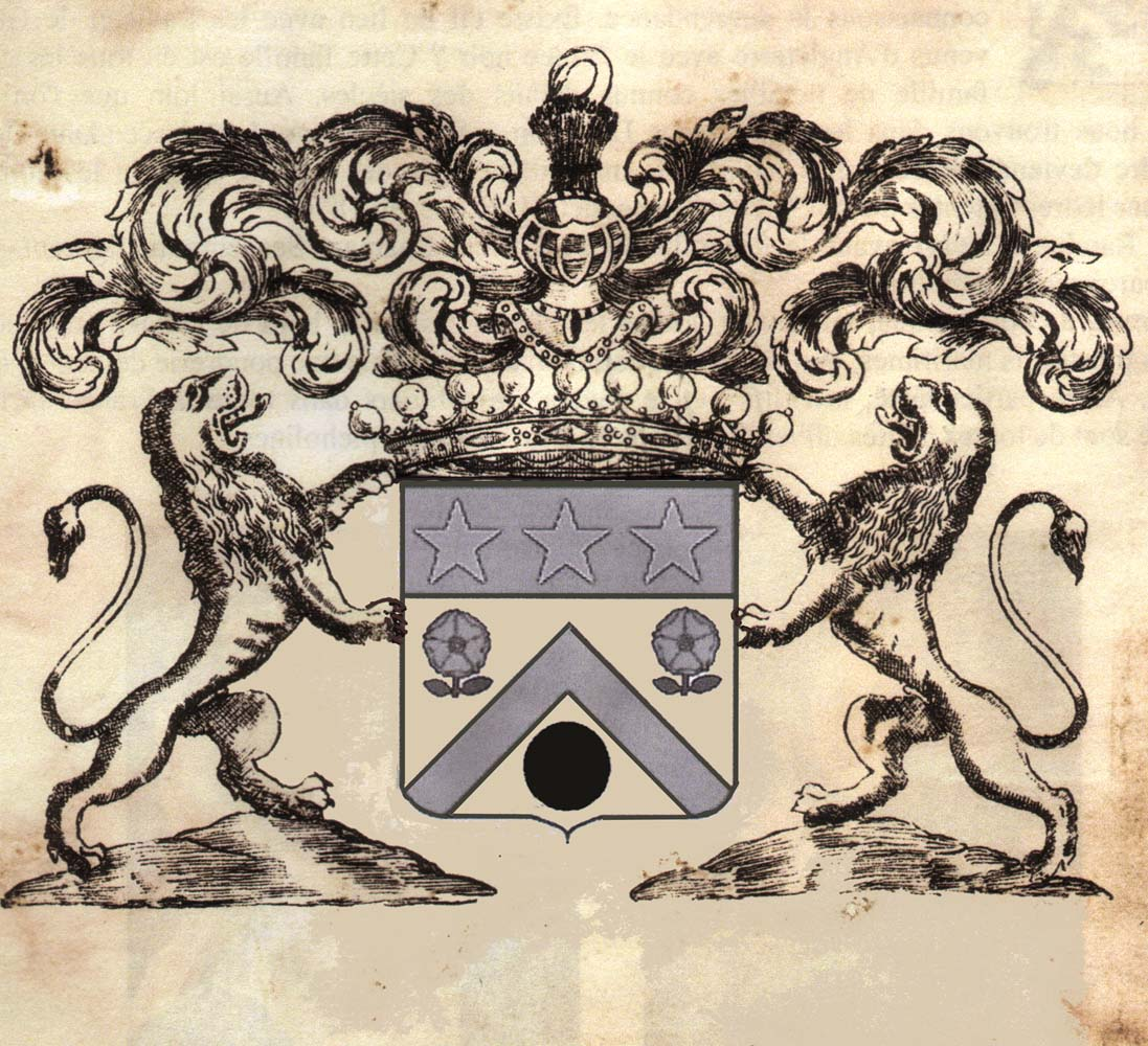 Coat of Arms, Mottet, Famille Le Clerc, Famille Mottet Versailles, Mantes, Compiègne, Avignon